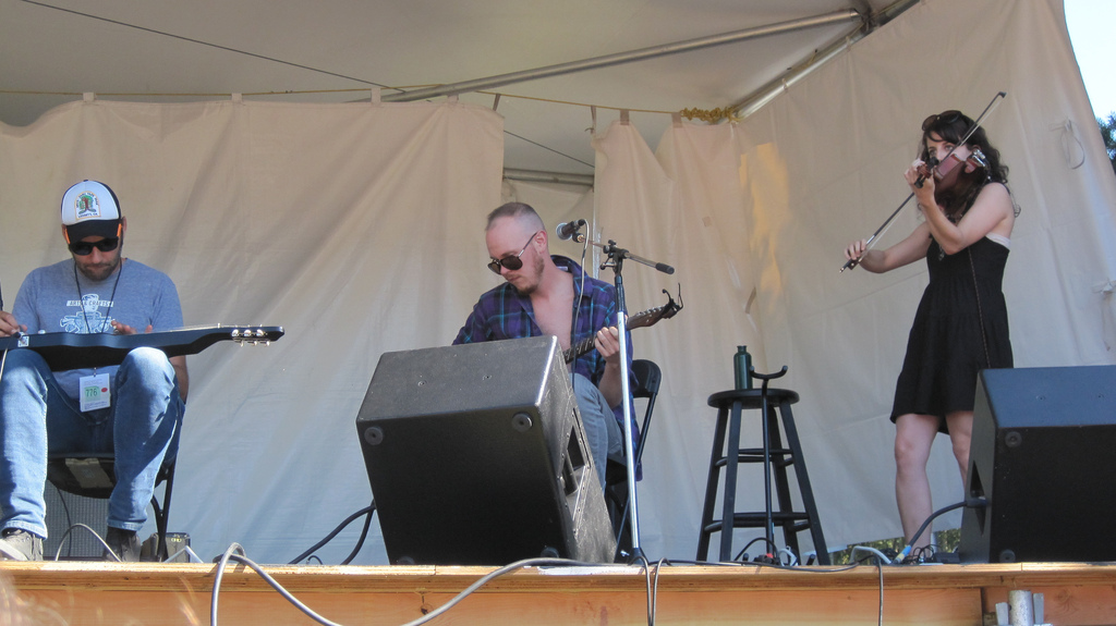 Timber Timbre at Vancouver Folk Music Festival